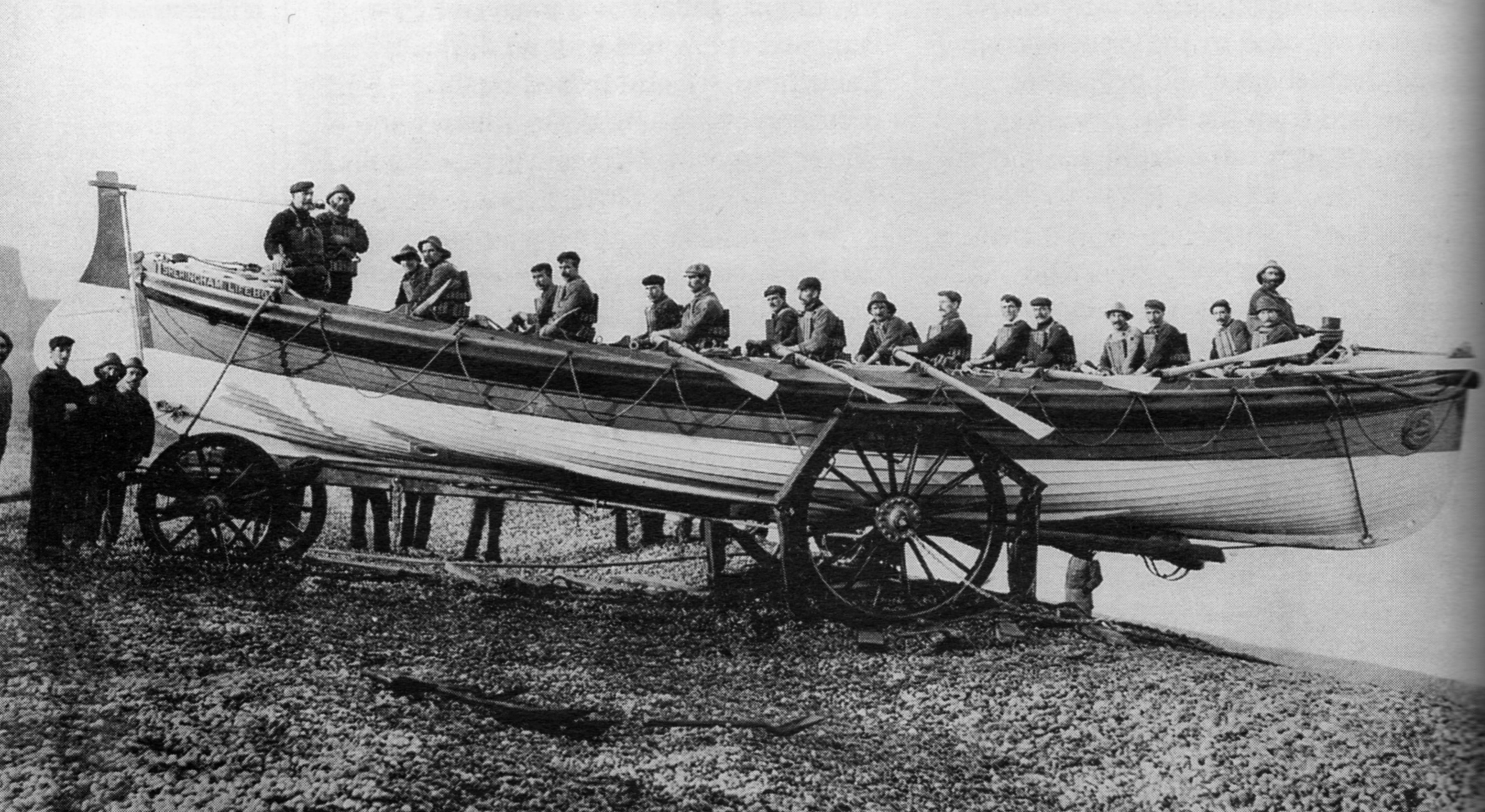 Postcard of the Sheringham Lifeboat J C Madge, scanned and cropped image from personnel postcard collection. there is no Copyright attributions